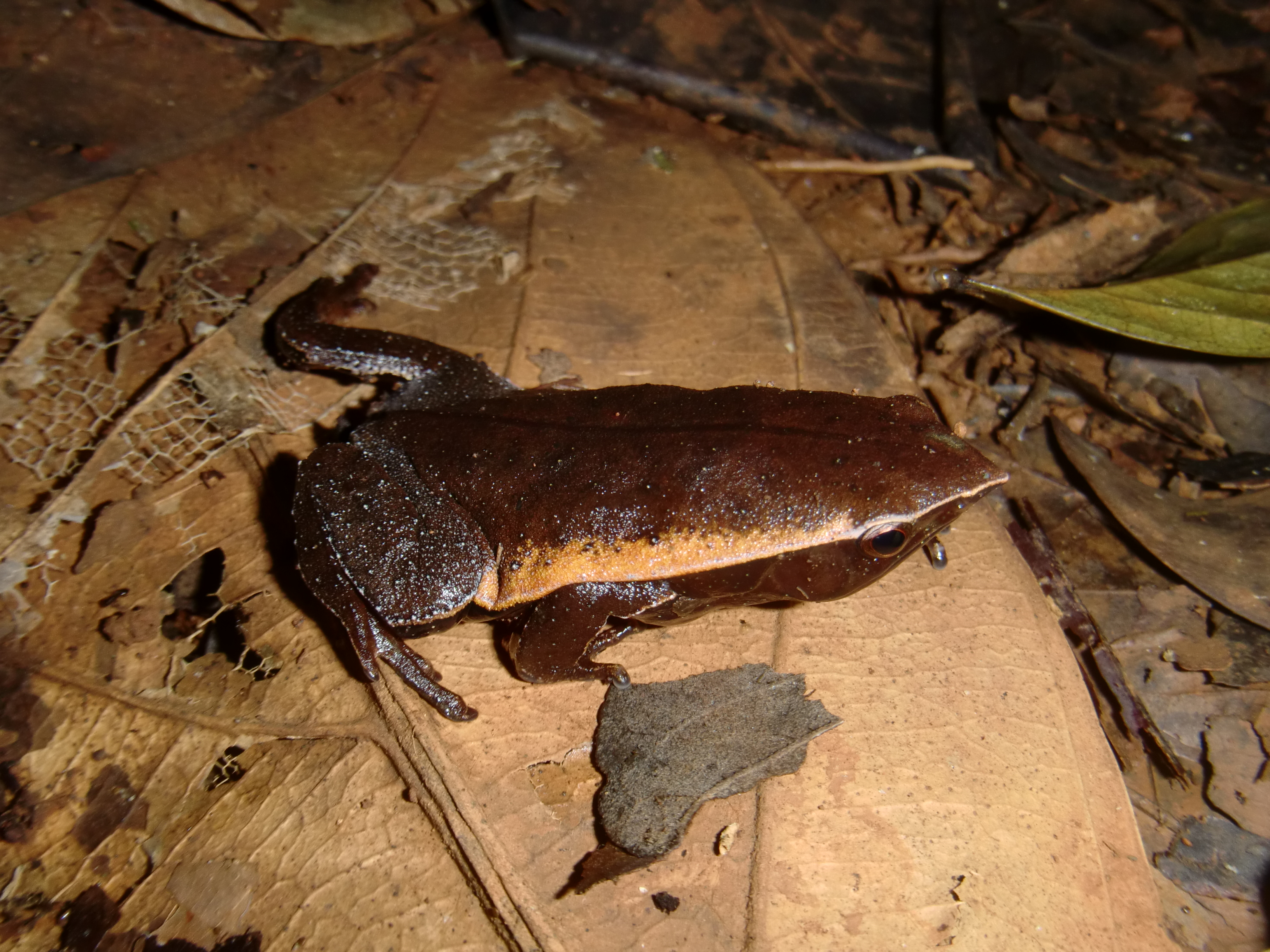 Otophryne pyburni, found near the Pararé camp in French Guiana. The precise geogr. coordinates remain unknown.